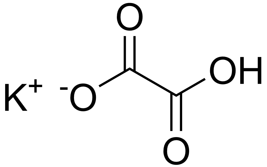 Chemical structure of monopotassium oxalate